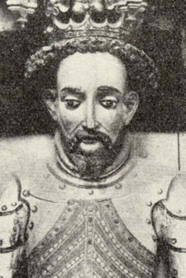 King Albert of Sweden ("of Mecklenburg") as depicted on his contemporary grave monument; Place: Doberan Munster, Bad Doberan, Germany